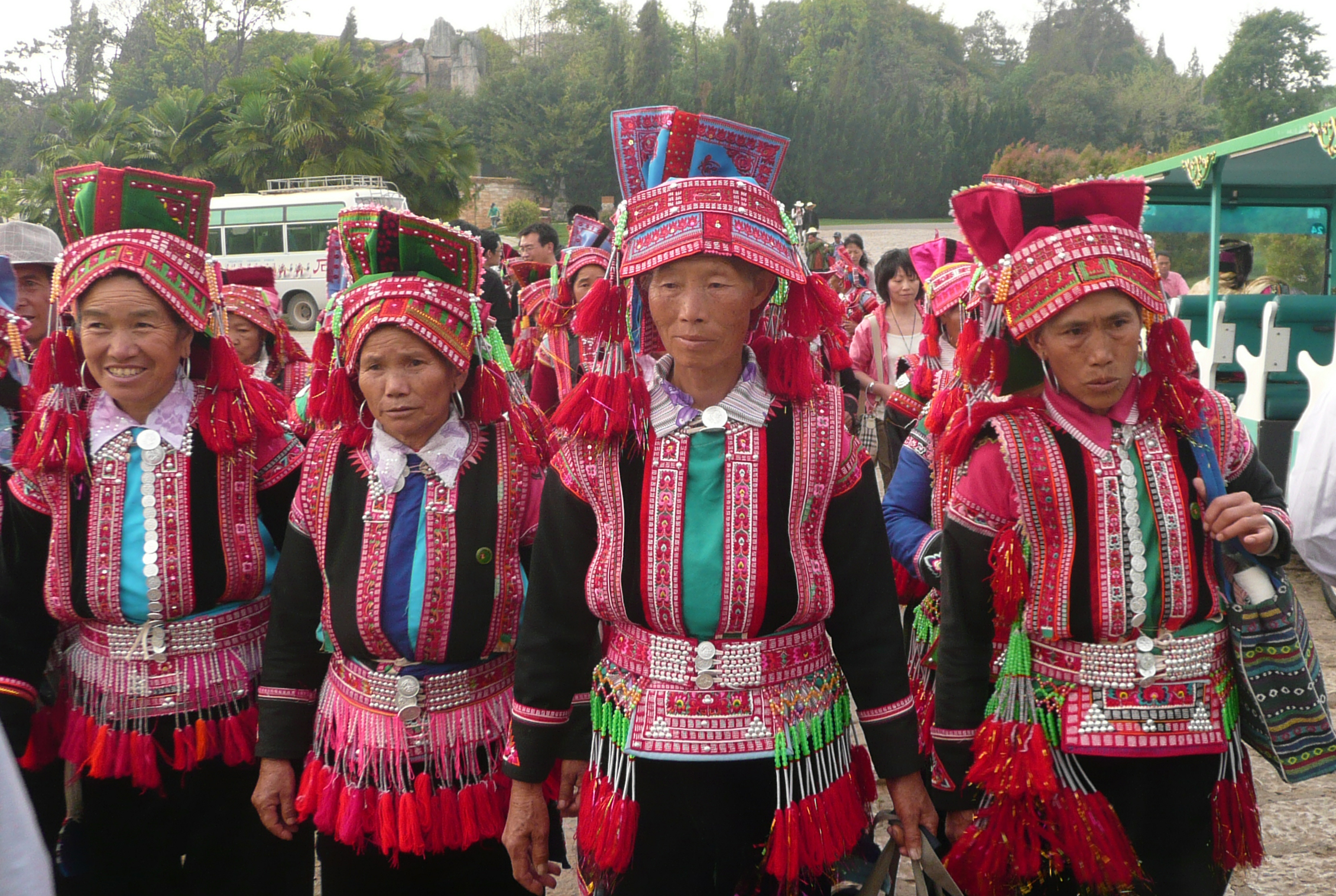 Hua-Yao-Yi minority in Yunnan